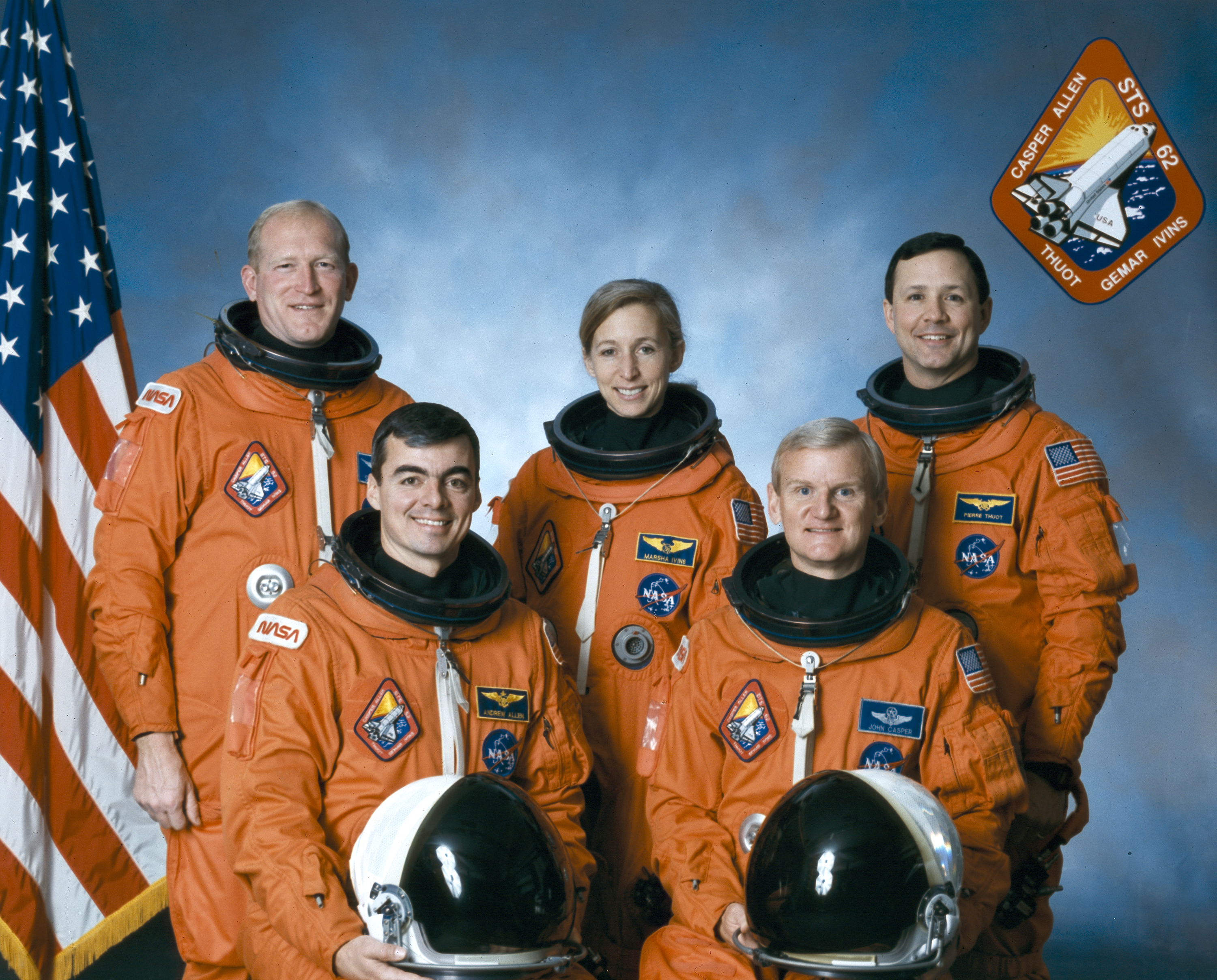 Astronauts included in the STS-62 crew portrait include (standing left to right) mission specialists Charles D. Gemar, Marsha S. Ivins, and Pierre J. Thuot. Seated left to right are Andrew M. Allen, pilot; and John H. Casper, commander. Launched aboard the Space Shuttle Columbia on March 4, 1994 at 8:53:00 am (EST), the STS-62 mission carried two primary payloads; the U.S Microgravity Payload-2 (USMP-2) and the Office of Aeronautics and Space Technology-2 (OAST-2).